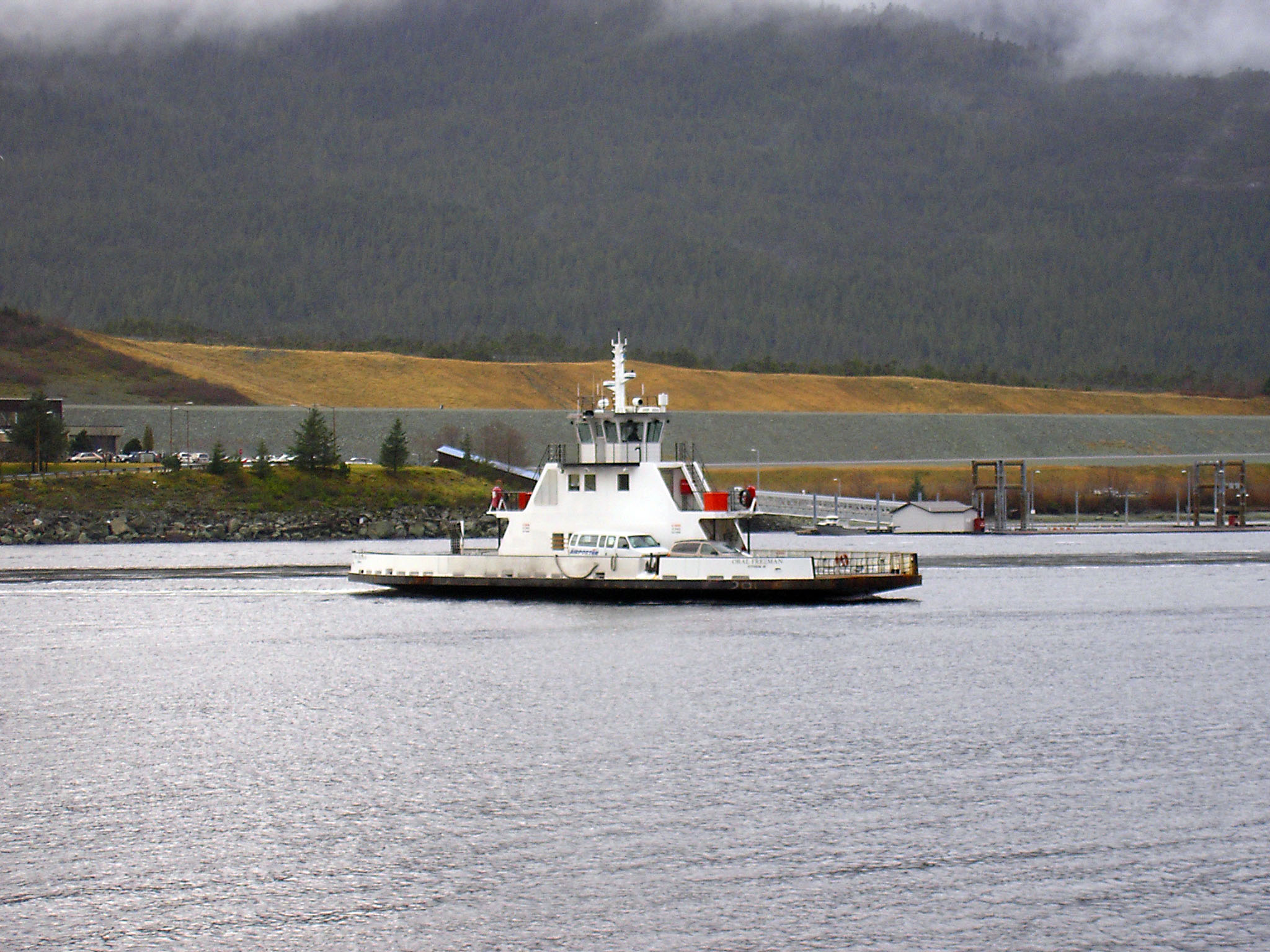 The ferry that runs between Ketchikan and Gravina Island in southern Alaska.